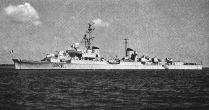 The French Marine Nationale destroyer Châteaurenault (D606) off Yorktown, Virginia (USA), on 19 October 1961. Châteaurenault participated in the 180th anniversary of the Battle of Yorktown. Châteaurenault had been commissioned as the Italian light cruiser Attilo Regolo. She and her sistership Scipione Africano were transferred to France as war reparations in 1948. The ships were extensively rebuilt with new anti-aircraft-focussed armament and fire-control systems in 1951-54. The ships were decommissioned in 1961.